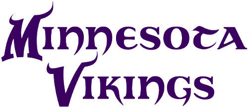 Minnesota Vikings wordmark from 1961 to 1981.